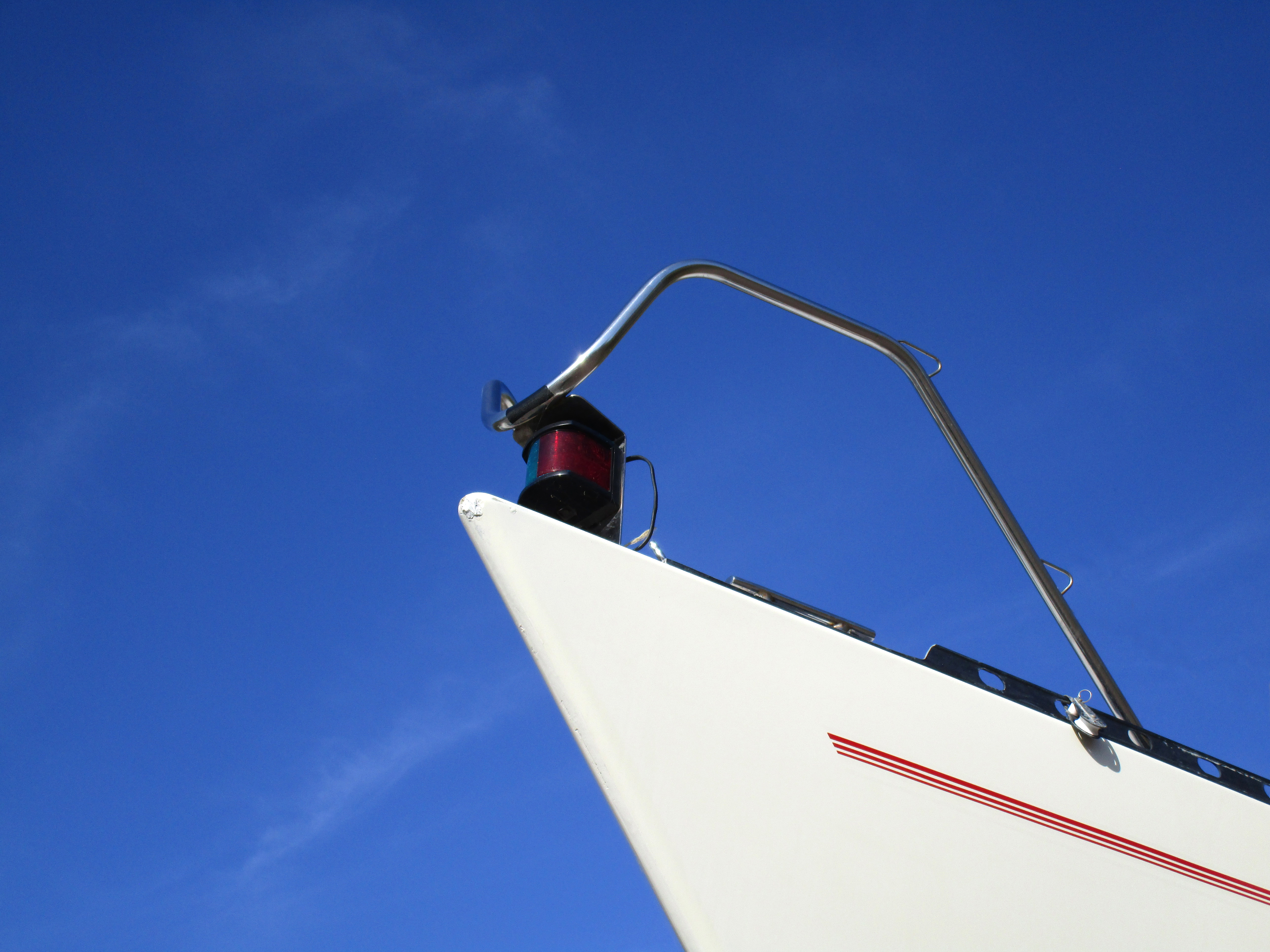 Combined red and green navigational light at the bow of a sailingboat in Rixö marina in Lysekil, Sweden.